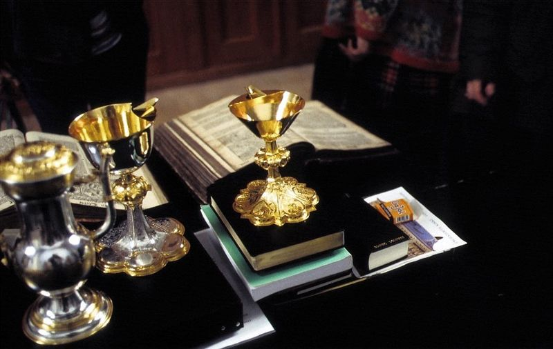 Maribo Cathedral